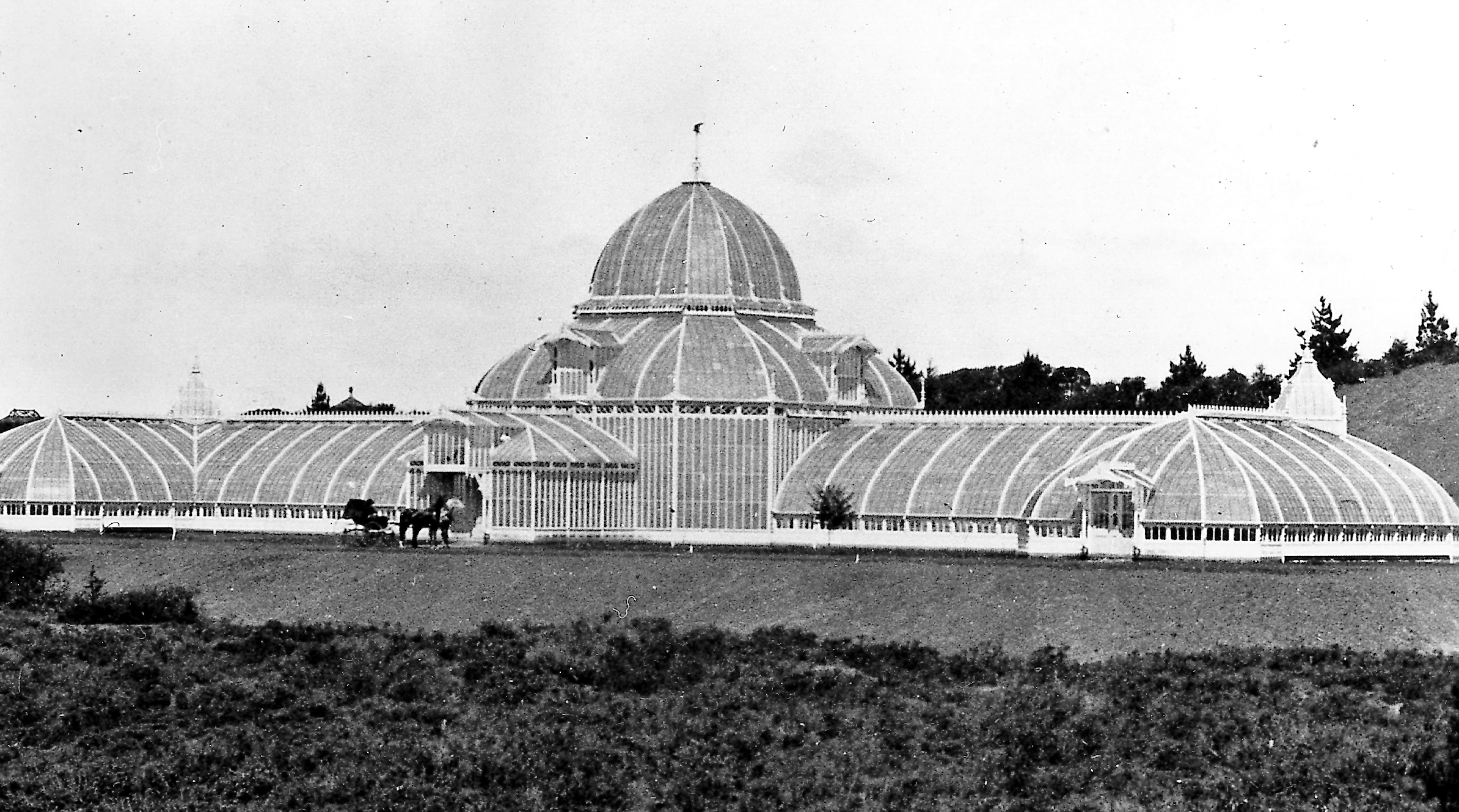 Historic view of the Conservatory of Flowers in San Francisco, California